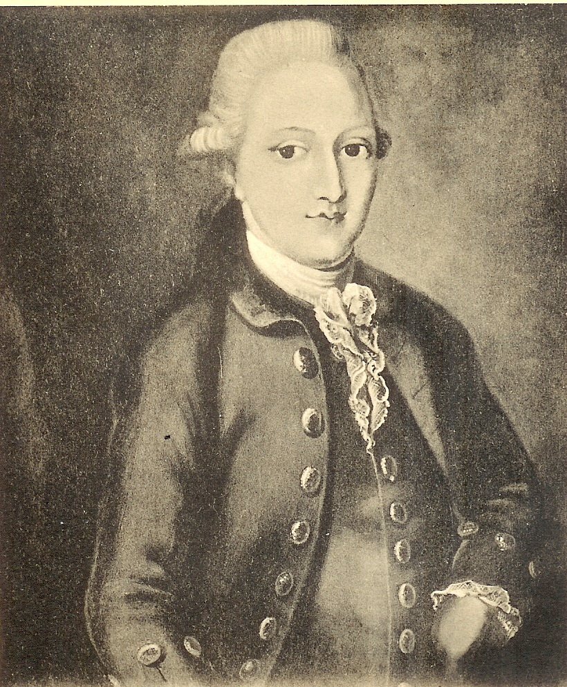 Reproduktion eines Bildes aus dem Besitz der Witwe Renz Darmstadt aus einer Festschrift des Frankfurter Goethemuseums